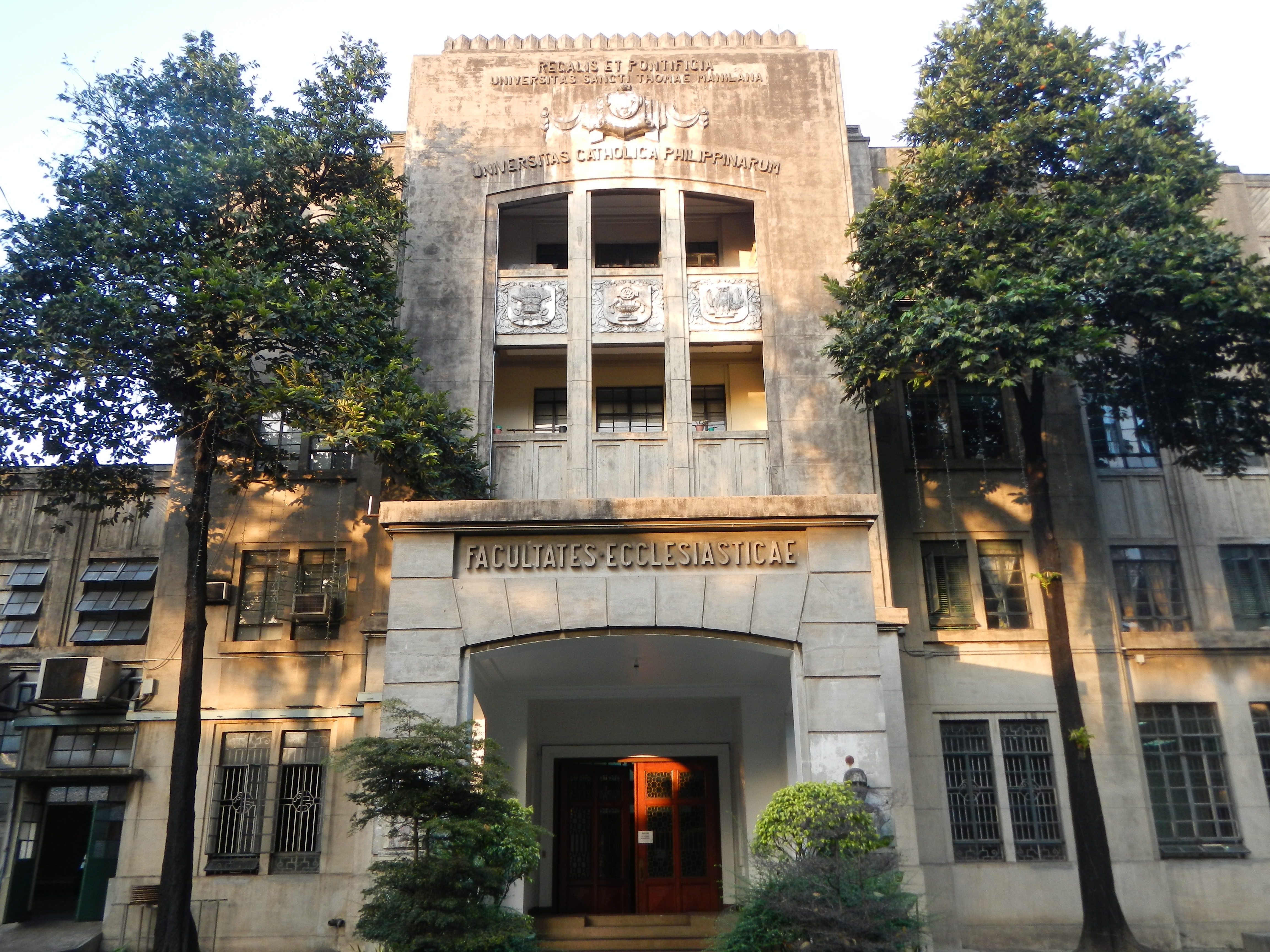 University of Santo Tomas Faculties of Ecclesiastical Studies[1] University of Santo Tomas Central Seminary Building[2]The Central Seminary Building currently houses the Santisimo Rosario Parish Church, the Central Seminary, and the Ecclesiastical Faculties of the Pontifical and Royal University of Santo Tomas in Manila. The Parish was canonically inaugurated on April 26, 1942 by Michael O'Doherty, the Archbishop of Manila during that time. In 2011, the National Museum of the Philippines formally declared the Central Seminary Building as a National Cultural Treasure. This building houses the UST Chapel (which is also the Santisimo Rosario Parish Church) the UST Central Seminary, and the UST Ecclesiastical Faculties. The Parish was canonically inaugurated on April 26, 1942 by Michael O'Doherty, the Archbishop of Manila during that time. University o f Santo Tomas[3]The Pontifical and Royal University of Santo Tomas, The Catholic University of the Philippines (UST, Filipino: Unibersidad ng Santo Tomas